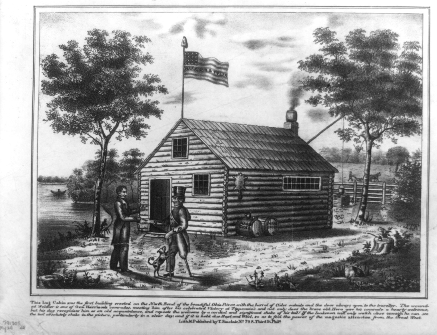 lithograph print, 25.4 x 30 cm. description from Library of Congress: A Whig campaign print, showing William Henry Harrison greeting a wounded veteran before a log cabin by a river. The cabin flies an American flag with the words “Harrison & Tyler” and with a liberty cap on its staff. A coonskin is tacked to the side of the cabin, two barrels of hard cider stand by, and a farmer ploughs a field in the distance. The text below the image describes the scene: This Log Cabin was the first building erected on the North Bend of the beautiful Ohio River, with the barrel of cider outside and the door always open to the traveller. The wounded soldier is one of “Gen. Harrison's comrades,” meeting him after his celebrated Victory of Tippecanoe and not only does the brave old Hero give his comrade a hearty welcome, but his dog recognizes him as an old acquaintance, and repeats the welcome by a cordial and significant shake of his tail! If the looker-on will only watch close enough he can see the tail absolutely shake in the picture, particularly on a clear day, and if it is held due East and West, so, as to feel the power of the magnetic attraction “from the Great West.” The closing statement is a reference to Harrison's broad base of support in the western United States.